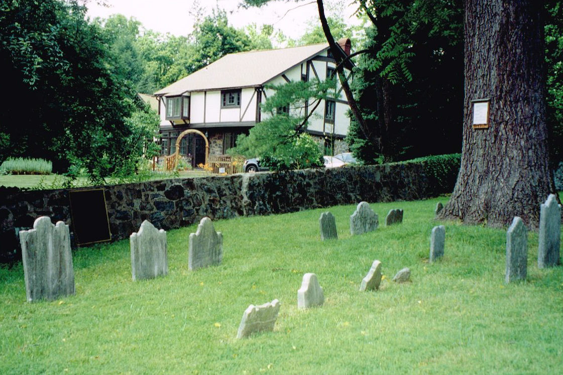 The Grubb Burying Grounds in Arden, Delaware